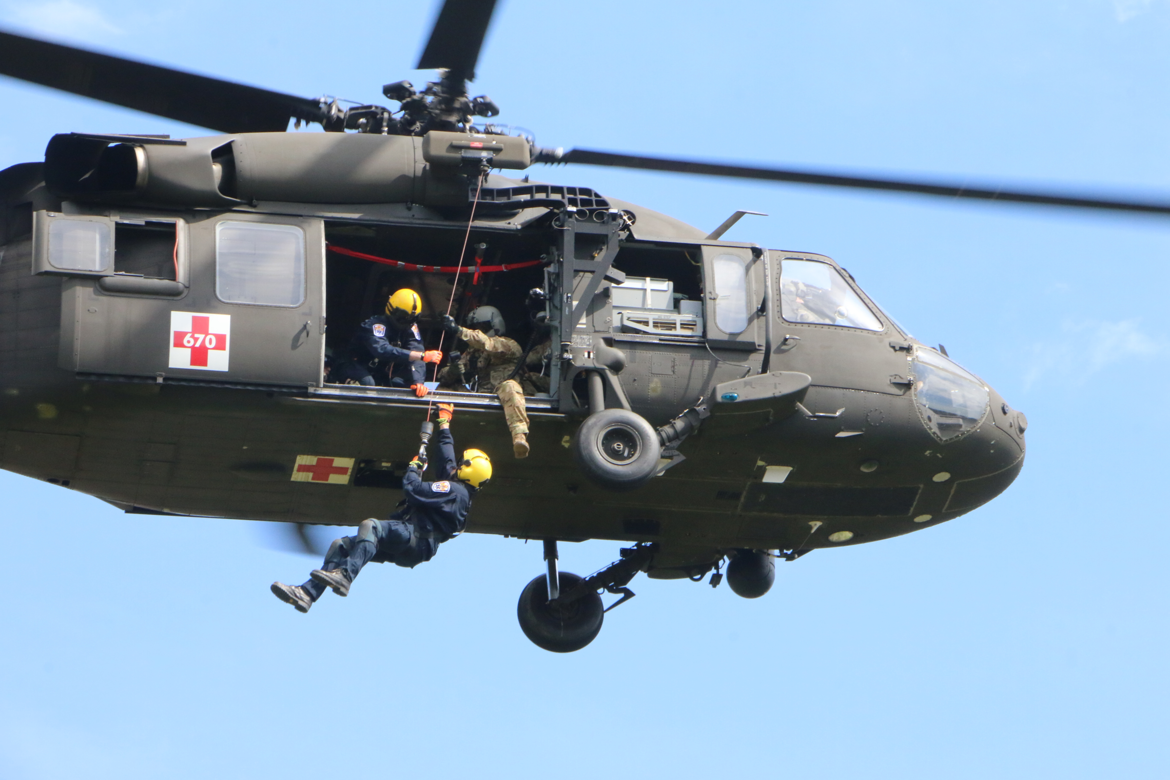 A Virginia National Guard aviation crew and Chesterfield County first responders conduct an aviation rescue hoist training demonstration during the Virginia Search and Rescue Conference April 14, 2018, at Holiday Lake 4-H Educational Center in Appomattox County, Virginia. Soldiers assigned to the 2nd Battalion, 224th Aviation Regiment, 29th Infantry Division along with members of Chesterfield County Fire and Emergency Medical Service Scuba Rescue Team work together as the Virginia Helicopter Advanced Rescue Team to provide trained and ready personnel capable of conducting aerial rescue evacuation in situations where there is potential loss of life, limb or eyesight or significant property damage. The event was the latest in a series of exercises that are part of an ongoing training partnership between Virginia National Guard and Chesterfield County Fire & EMS. (U.S. National Guard photo by Cotton Puryear)